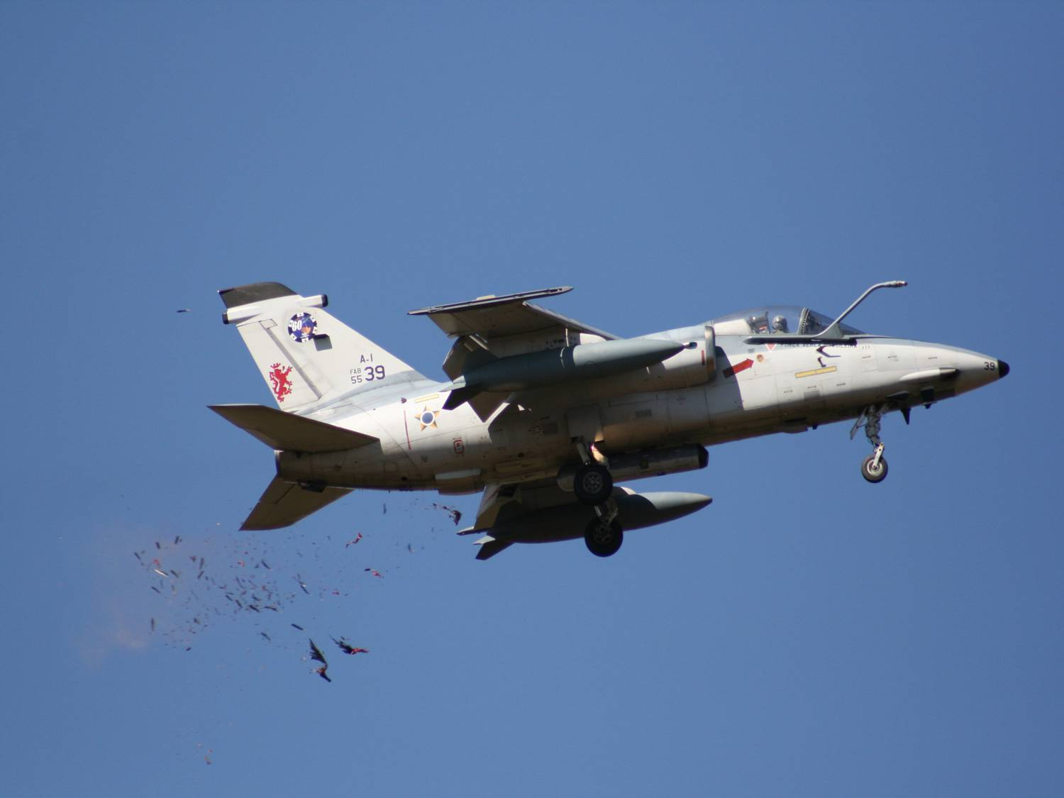 Bird Strike - aircraft AMX - Brazilian Air Force